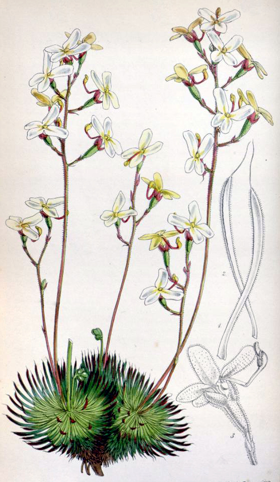 Botanical print of Stylidium ciliatum (printed as S. saxifragoides, which was later reduced to synonymy with S. ciliatum) from